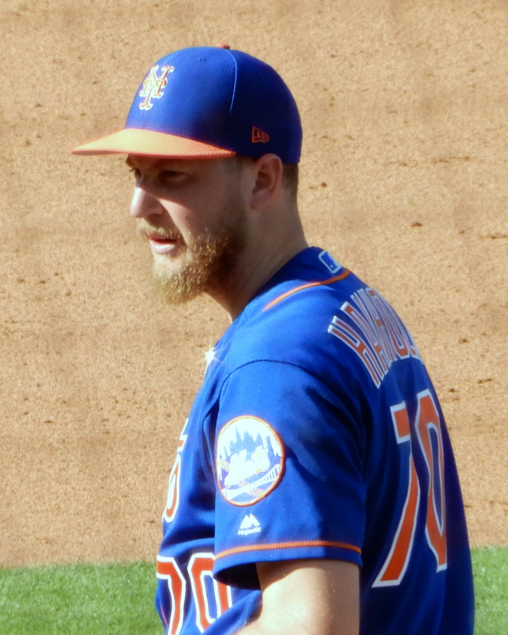 Eric Hanhold with the New York Mets during spring training at First Data Field in 2019